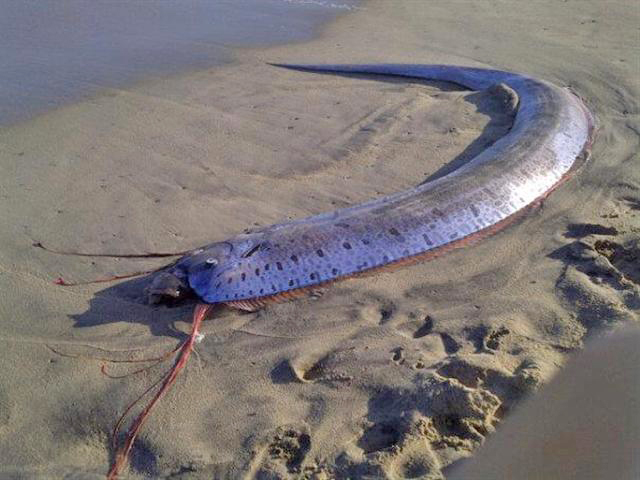 Regalecus glesne found in Los Cabos, Baja California Sur, Mexico